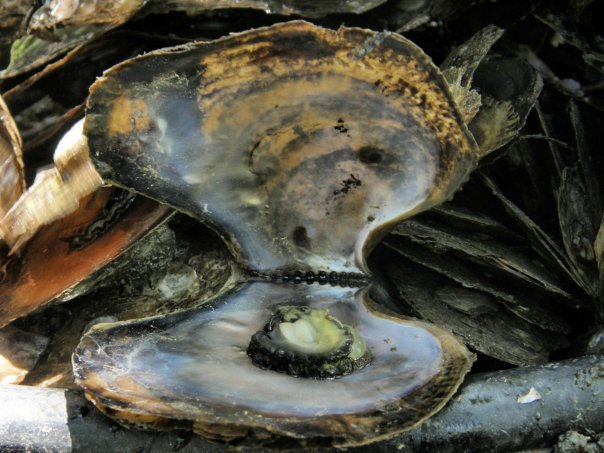 Rare black mollusk found only in the brackish water of Magasang river.